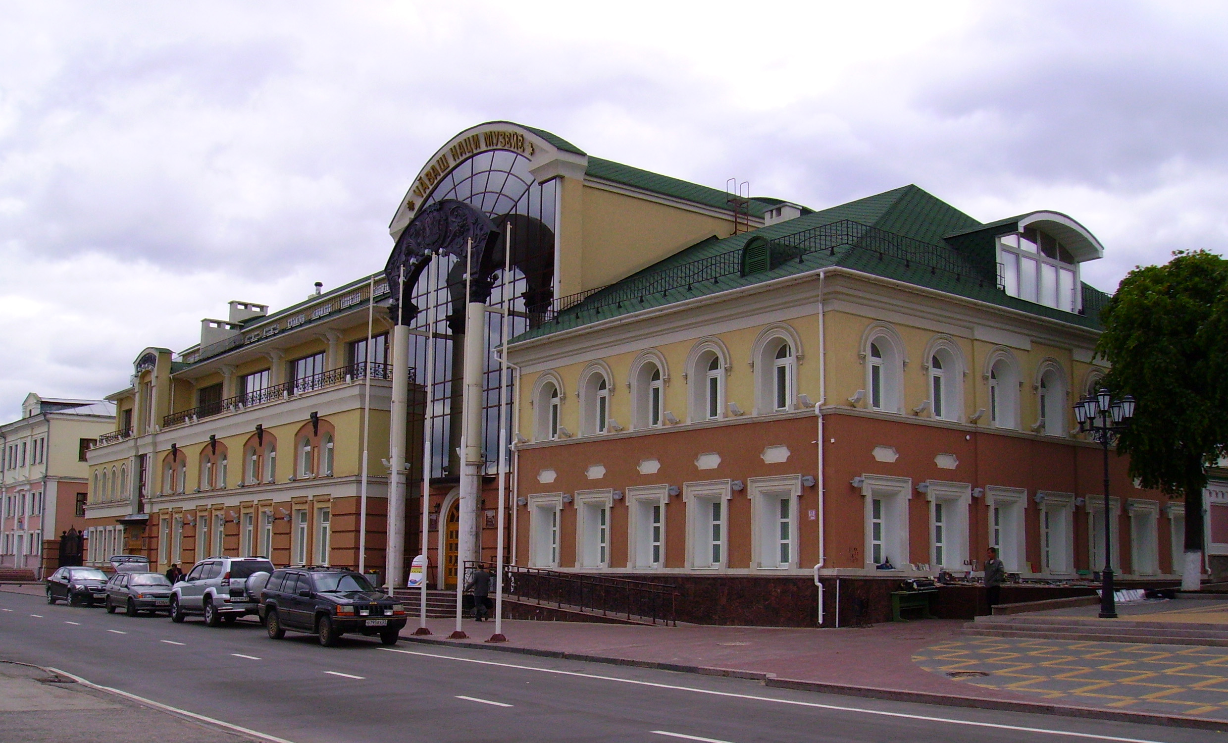 Chuvah National Museum